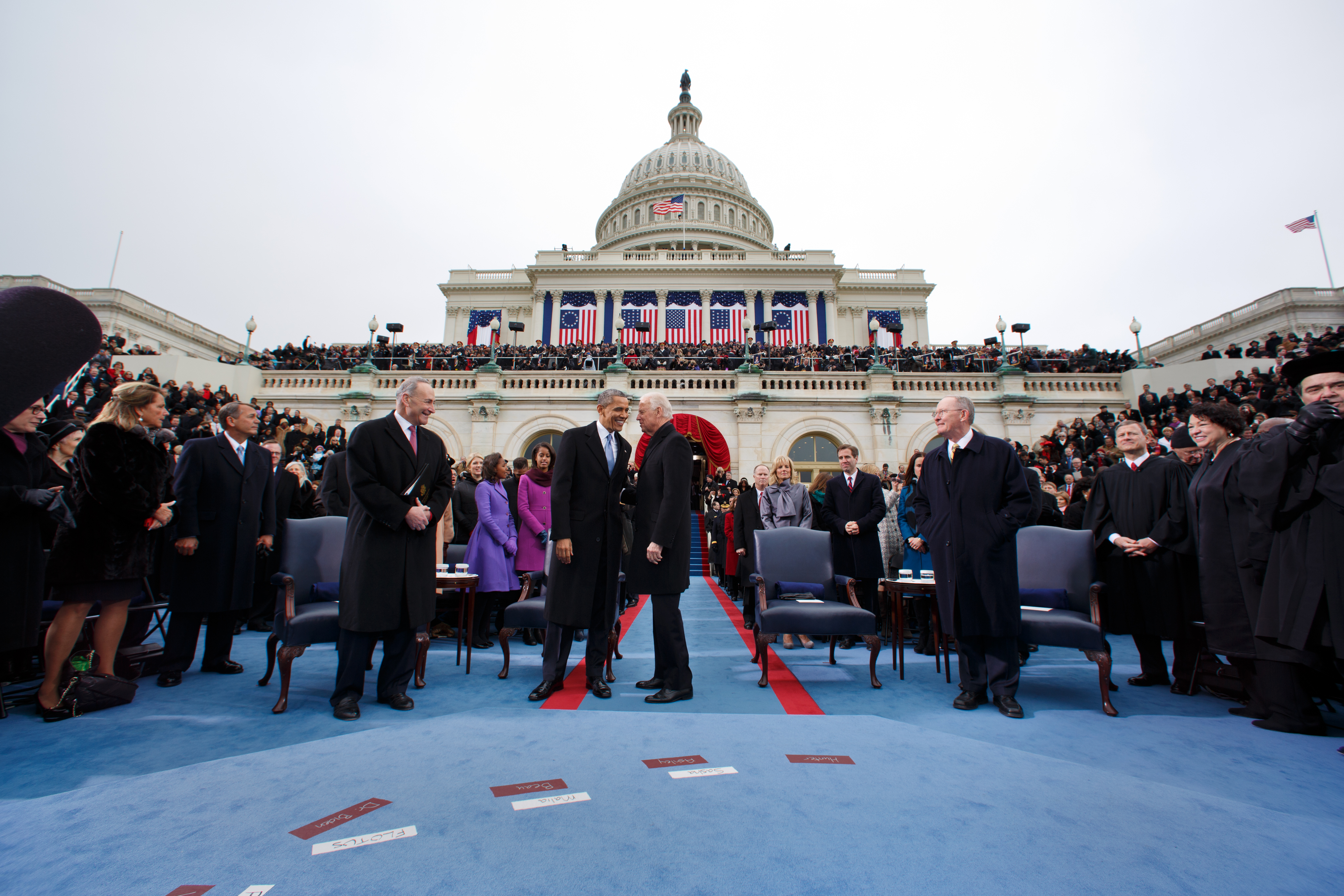 United States President Barack Obama talks with Vice President Joe Biden during the inaugural swearing-in ceremony at the U.S. Capitol in Washington, D.C. on 21 January 2013.